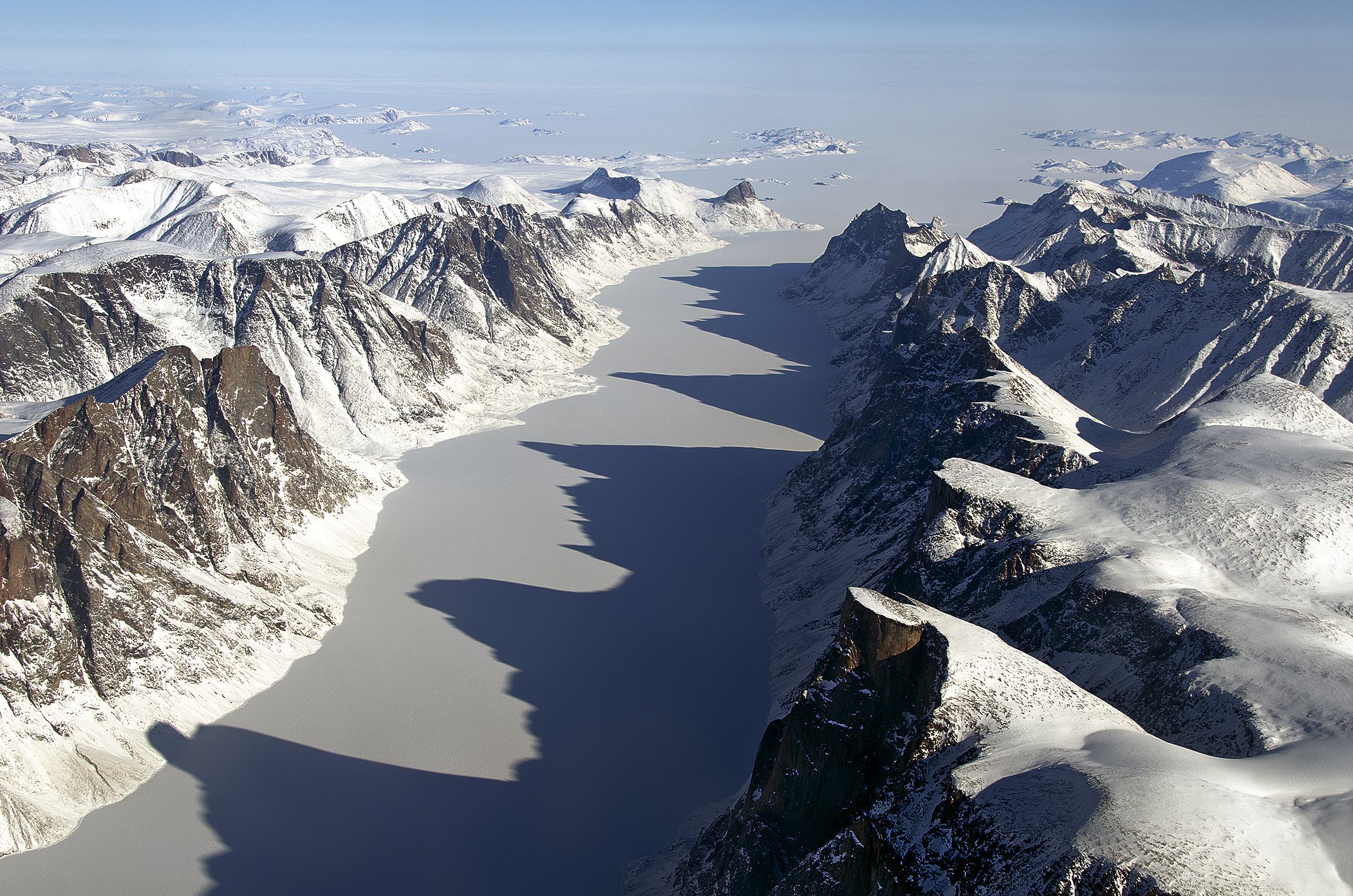 IceBridge closed out the fourth week of its Arctic campaign with a flight over the striking landscape of eastern Greenland's Geikie Peninsula and a survey of a Canadian ice cap before taking two days off over the weekend. Soon the mission will return to Thule to finish up Arctic flights for 2013. The morning of April 12, 2013 saw the P-3B take off for a flight to the west, across the Davis Strait to Canada's Baffin Island. This island, the largest one in Canada, is home to an ice formation known as the Penny Ice Cap. This mission was a repeat of airborne surveys by the ATM and radar teams flown in 1995, 2000 and 2005, and added new survey lines along ICESat ground tracks. Previous airborne surveys showed the ice cap thinning and glaciers retreating in the area and the April 12 mission aimed at measuring several glaciers in the area to see how much the Penny Ice Cap has melted in recent years. The image captures ice covered fjord on Baffin Island with Davis Strait in the background.